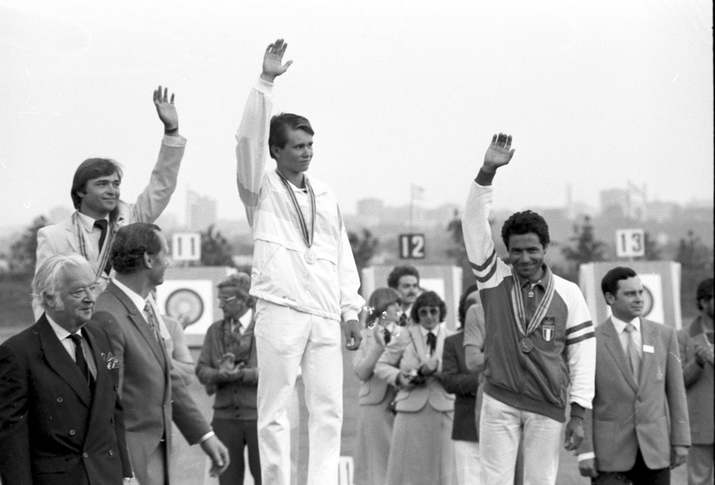 “Boris Isachenko (USSR), Tomi Poikolainen (Finland), Giancarlo Ferrari (Italy) on the victory podium”. Boris Isachenko (USSR), Tomi Poikolainen (Finland), Giancarlo Ferrari (Italy) on the victory podium. Dinamo archery range in Mytishi. Archery competition. XXII Summer Olympic Games held in Moscow on July 19 - August 3, 1980.